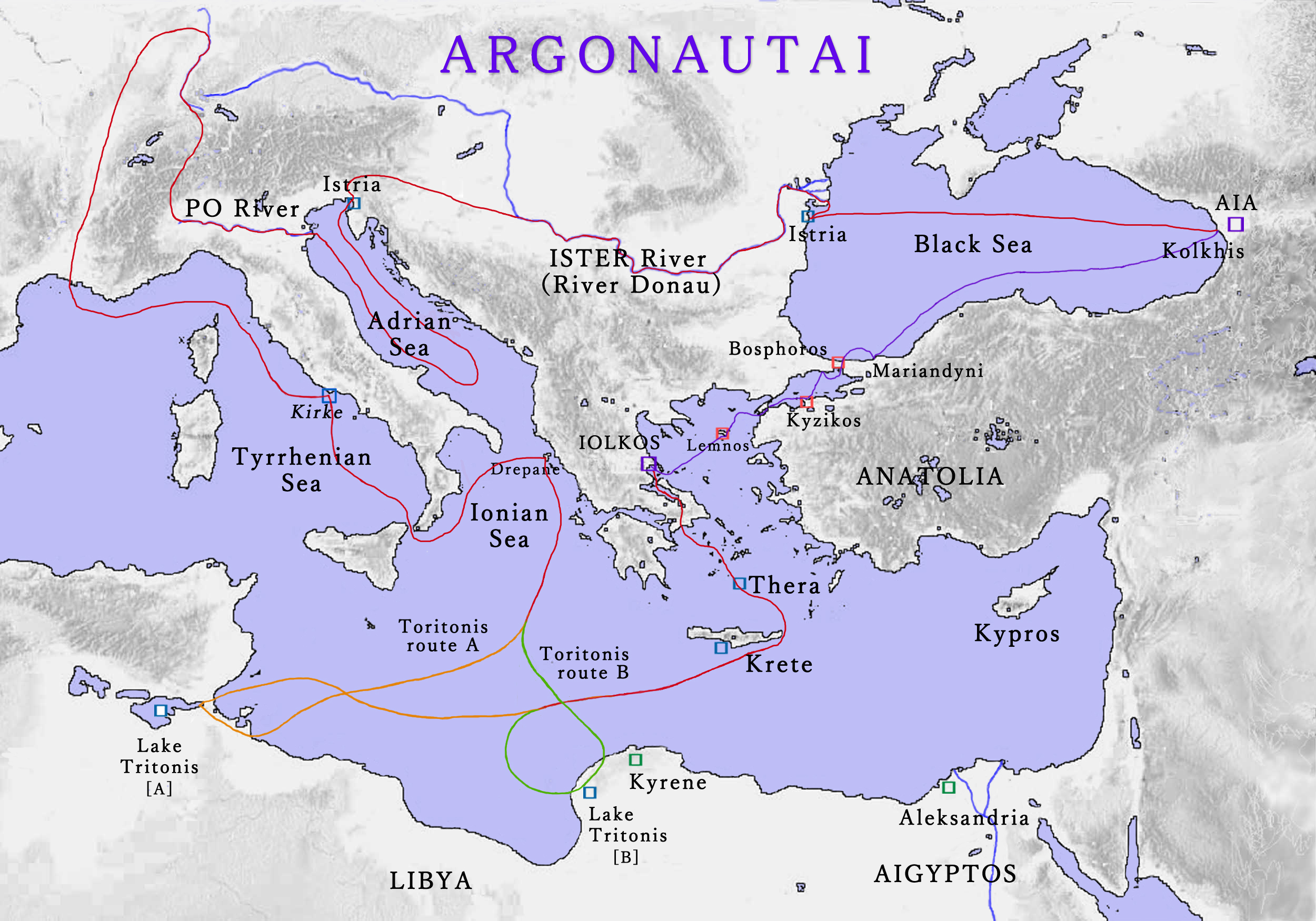 created by Maris stella, bg-map here by CB